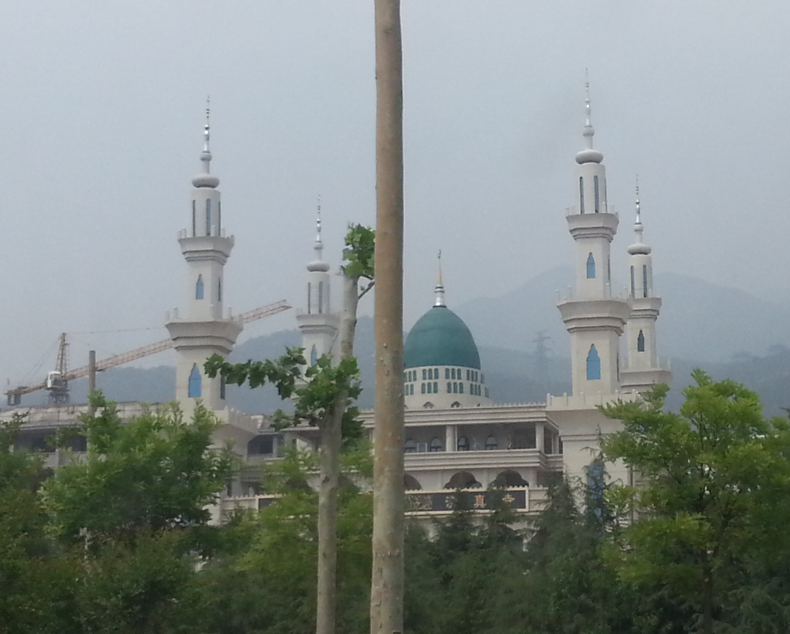 China, Shandong province. One of the Taian city Mosques in 2013.